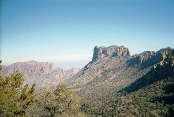 Casa Grande is a prominent peak in the Chisos Mountains of the Big Bend area of west Texas. Casa grande means big house in Spanish. The view is from the Pinnacles Trail in Big Bend National Park. This photo was taken by Kenneth E. Harker of Austin, Texas, USA in January, 2001.